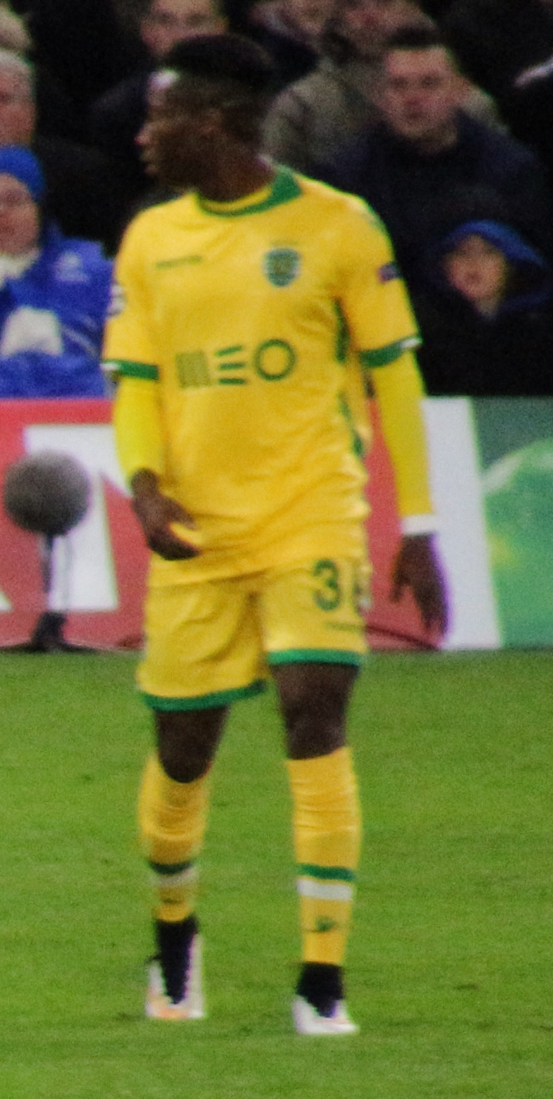 Carlos Mané